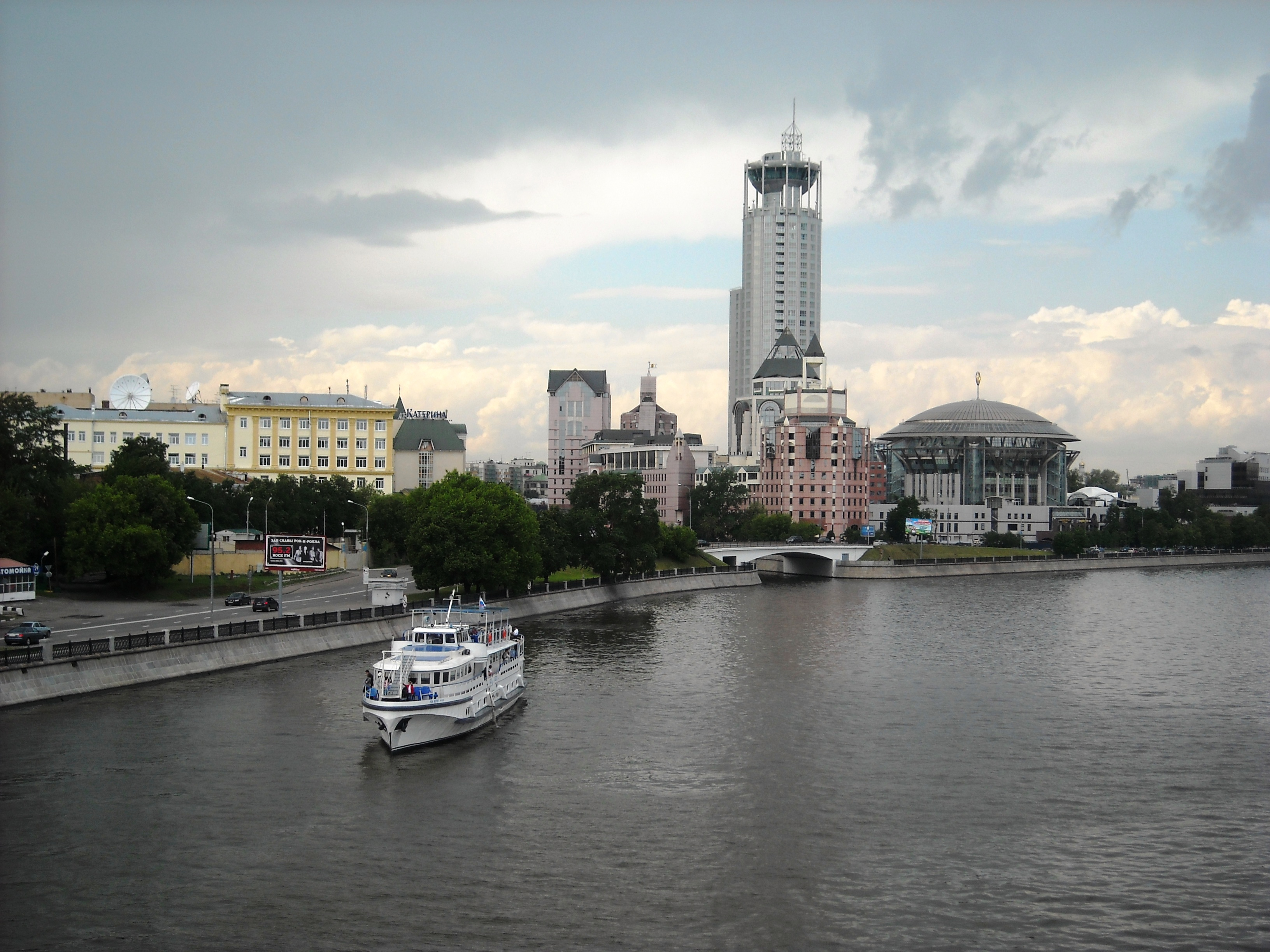 Katerina City Hotel